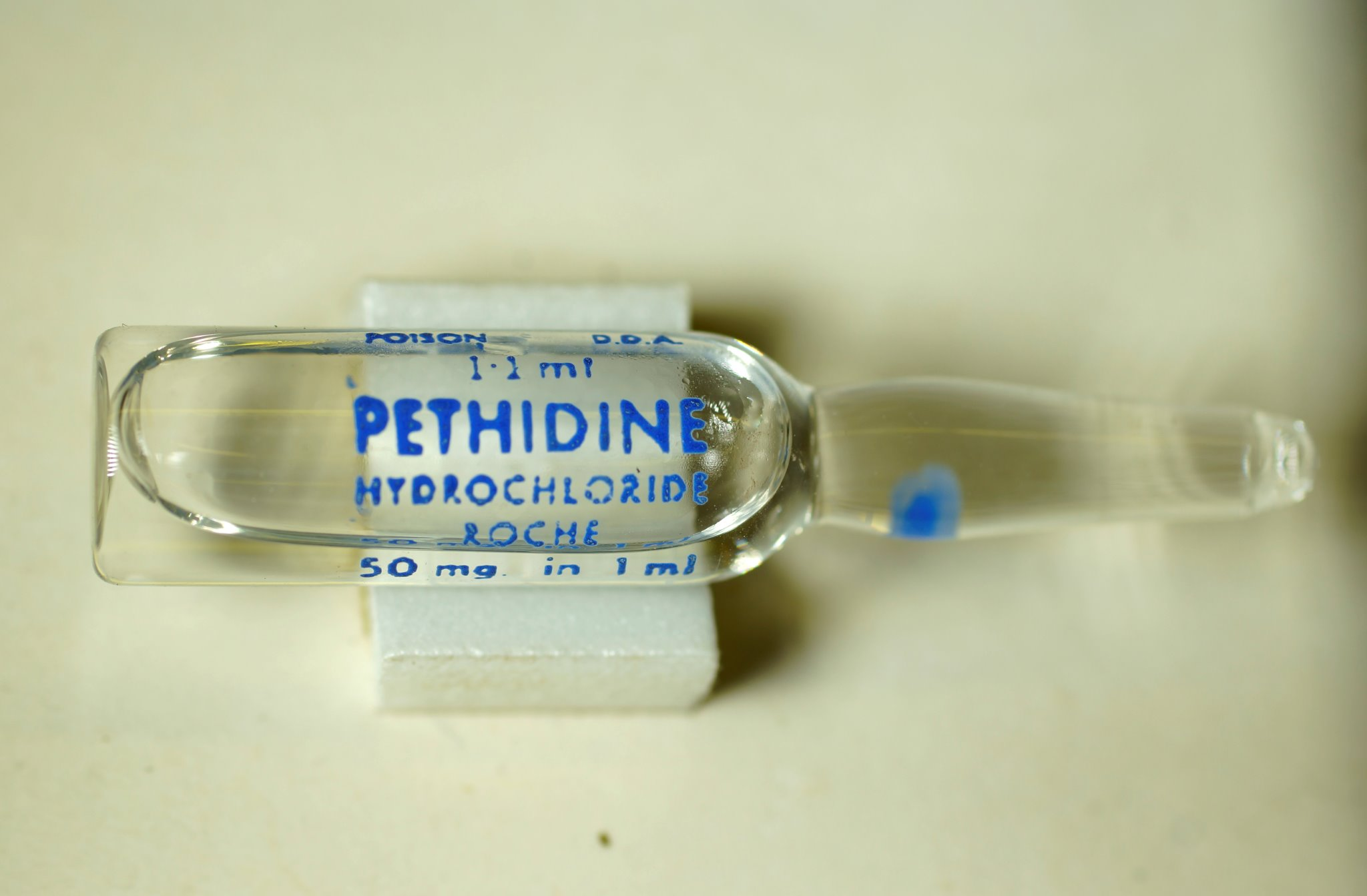 West Midlands Police Museum